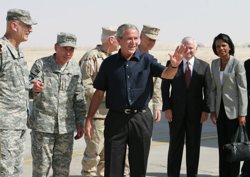 Original Caption: "President George W. Bush waves after arriving at Al Asad Airbase, Al Anbar Province, Iraq, Monday, September 3, 2007. The greeting party from left are Lieutenant General Raymond Odierno, Commanding General, Multi-National Corps, General David Petraeus, Commander, Multi-National Force Iraq, Admiral William Fallon, Commander US Central Command, General Peter Pace, Chairman of the Joint Chiefs of Staff, Secretary of Defense Robert Gates and Secretary State Condoleezza Rice. White House photo by Eric Draper"